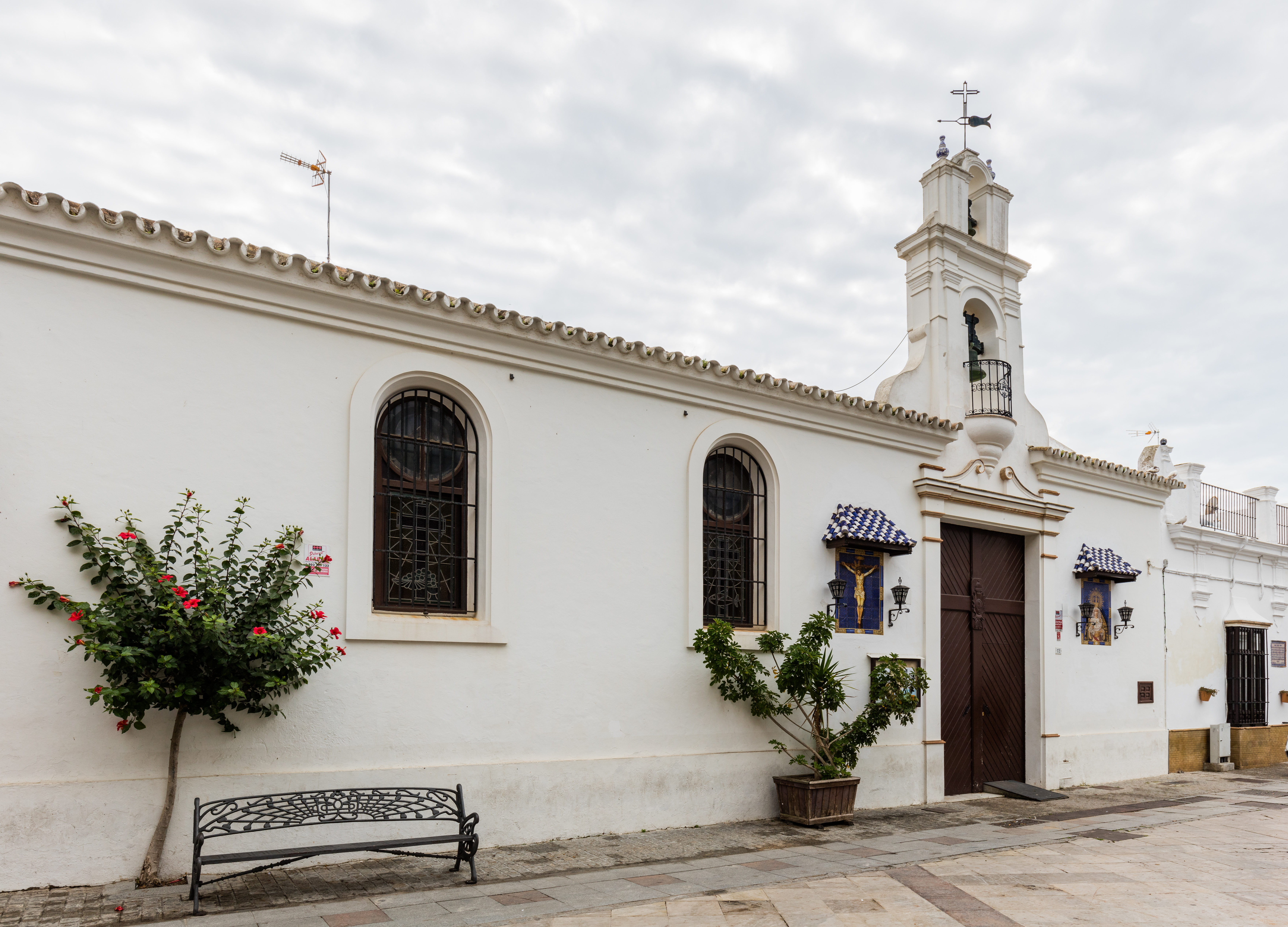 Hermitage of Cristo de las Misericordias, Chipiona, Spain